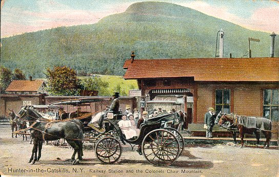 An old postcard image of the Ulster and Delaware railroad station at Hunter, New York before it was expanded in 1900.